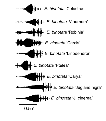 Male signals is the most variable trait in the species complex as can be seen with the variety of signal characteristics